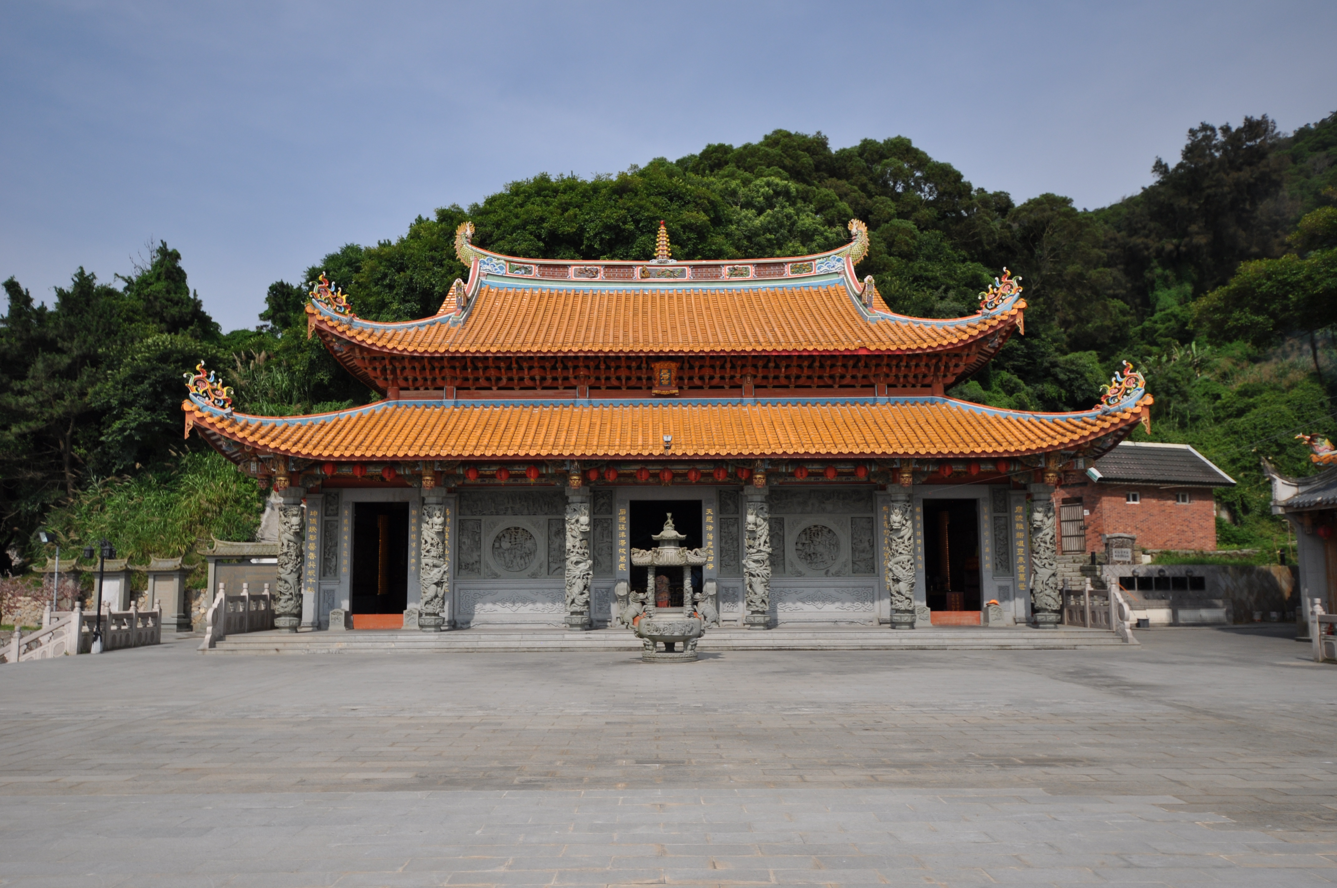 Matsu temple in Matsu Islands China